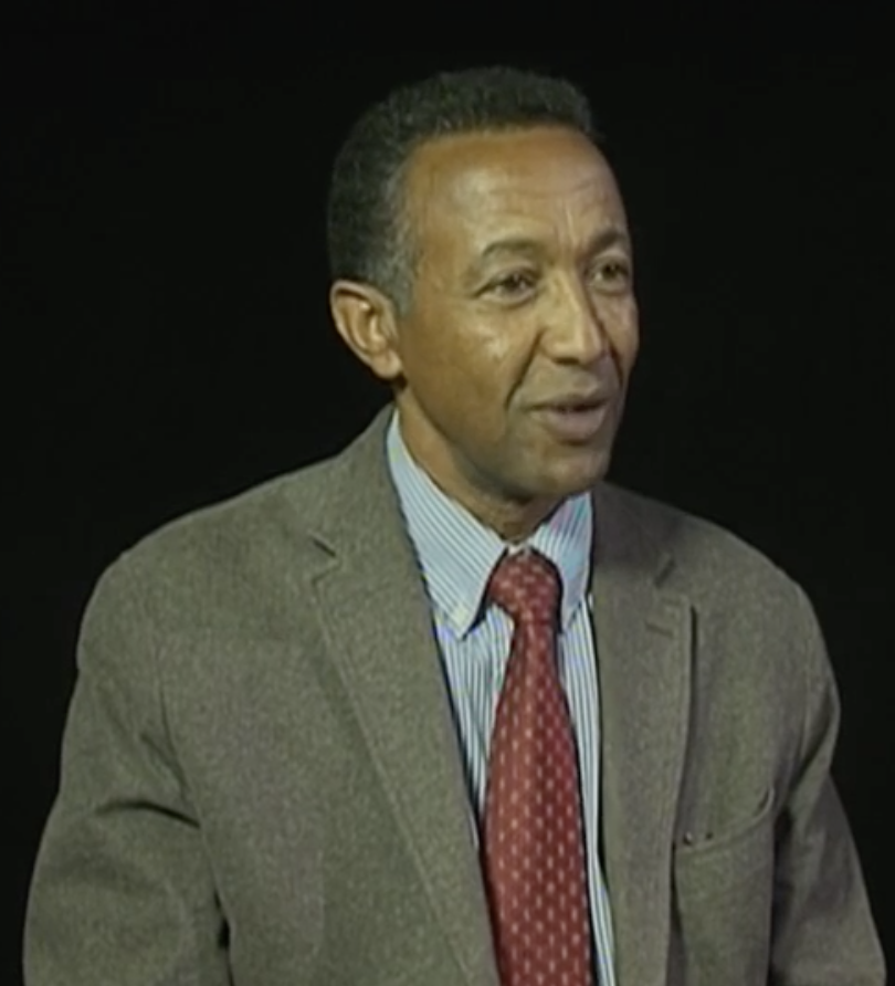 Photo of Yohannes Haile-Selassie.